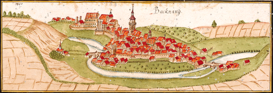 View of Backnang from the forest register books created by Andreas Kieser